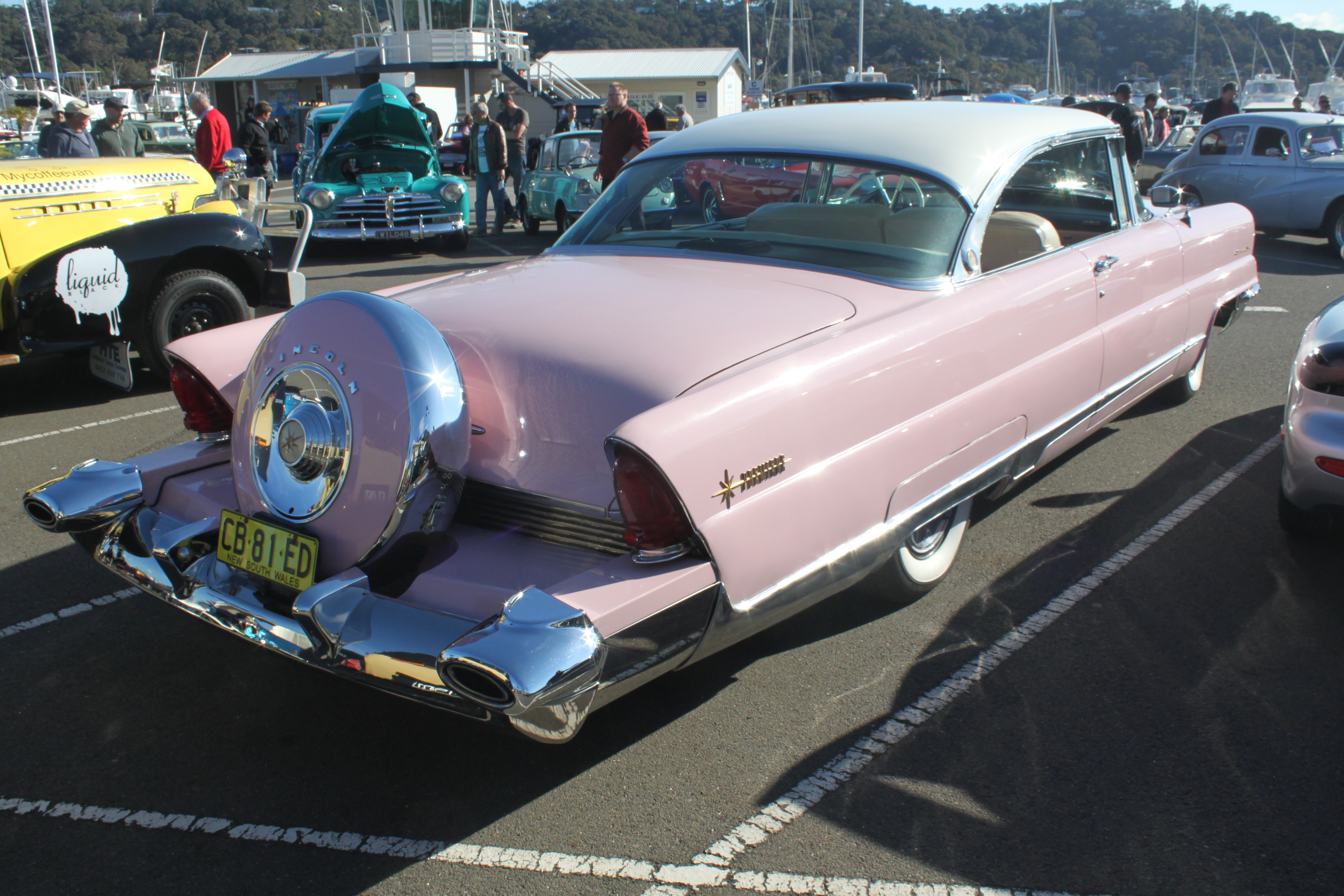 RMYC Unique Car Show, Newport, NSW July 2015